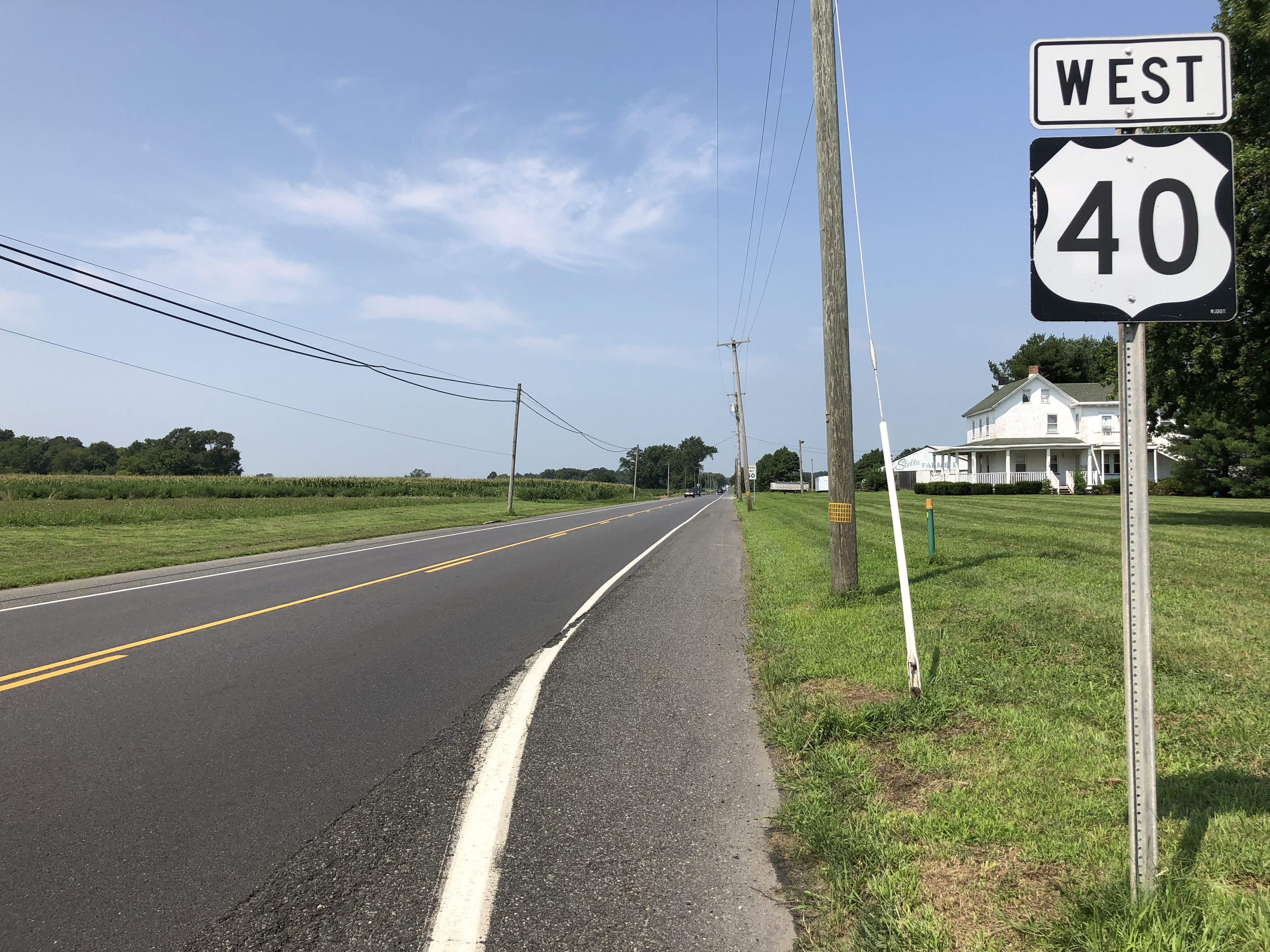 View west along U.S. Route 40 (Harding Highway) just west of Salem County Route 677 (Burlington Road/Greenville Road) in Upper Pittsgrove Township, Salem County, New Jersey